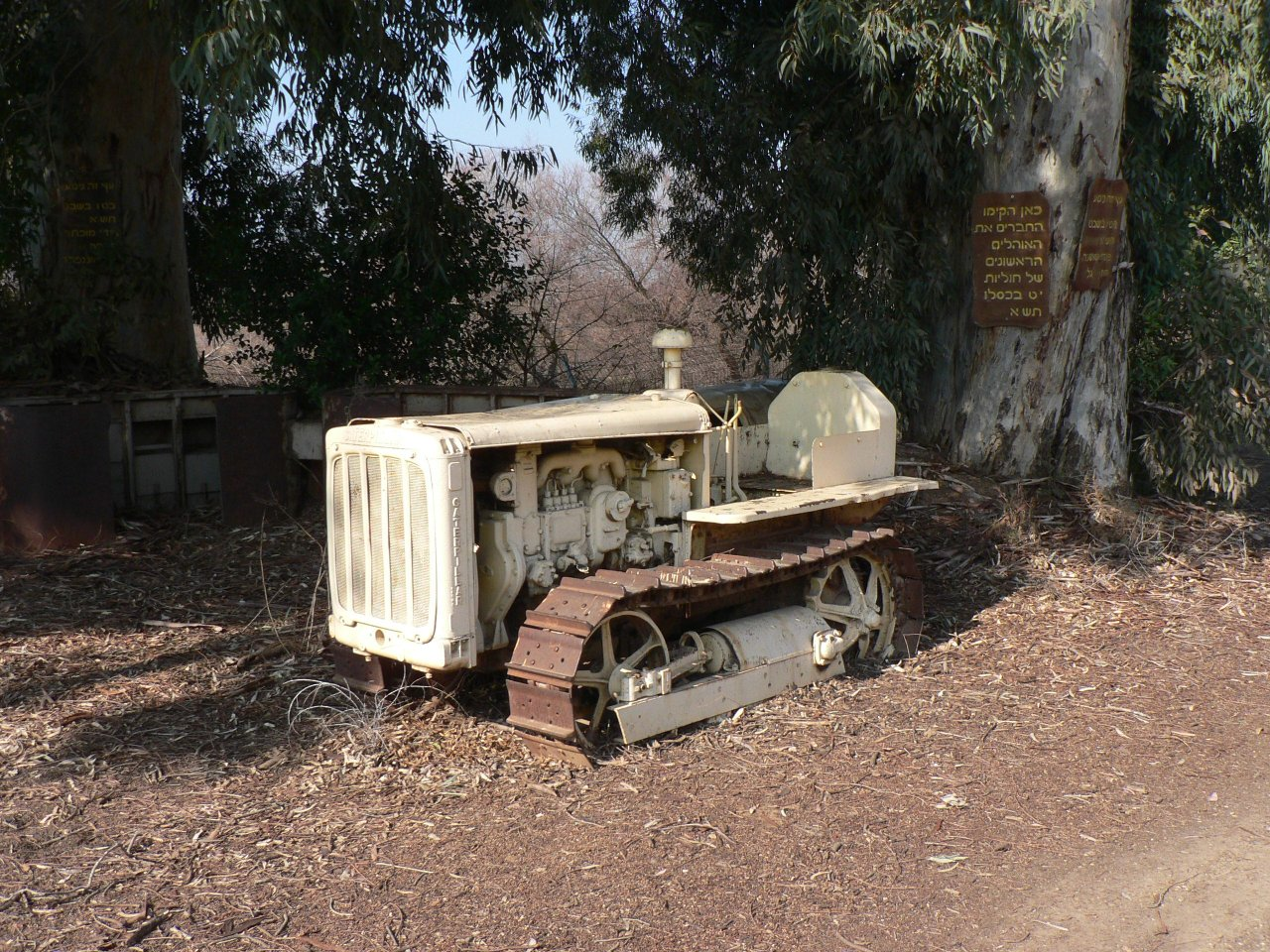 Caterpillar tractor is Sde-Nechemia, Israel